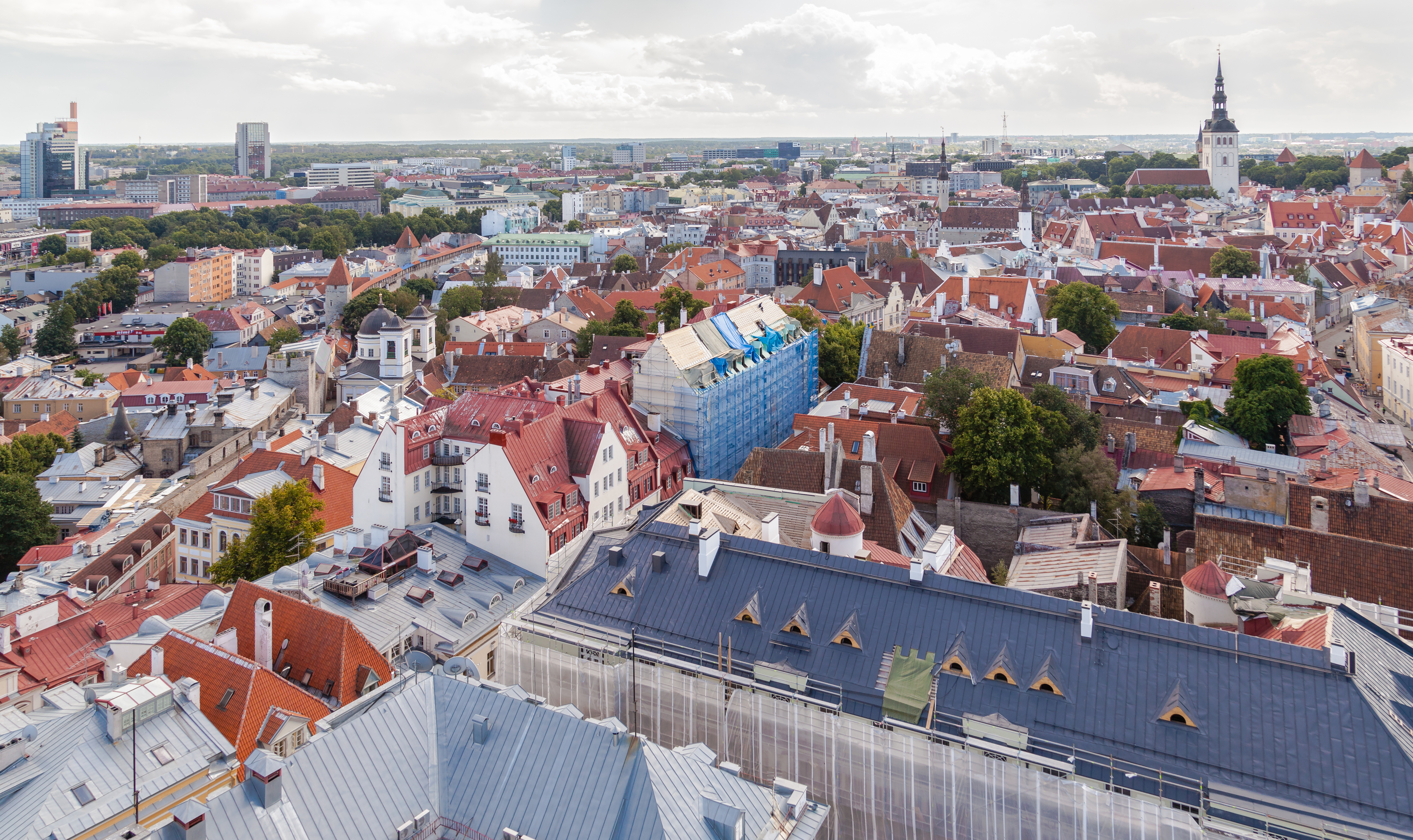 Panoramic view of Tallinn from Olaf's church, Estonia